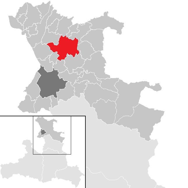 District Salzburg-Umgebung